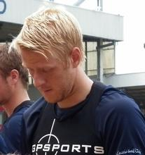 Zak Whitbread at Norwich City's open training session on 2 August 2011.